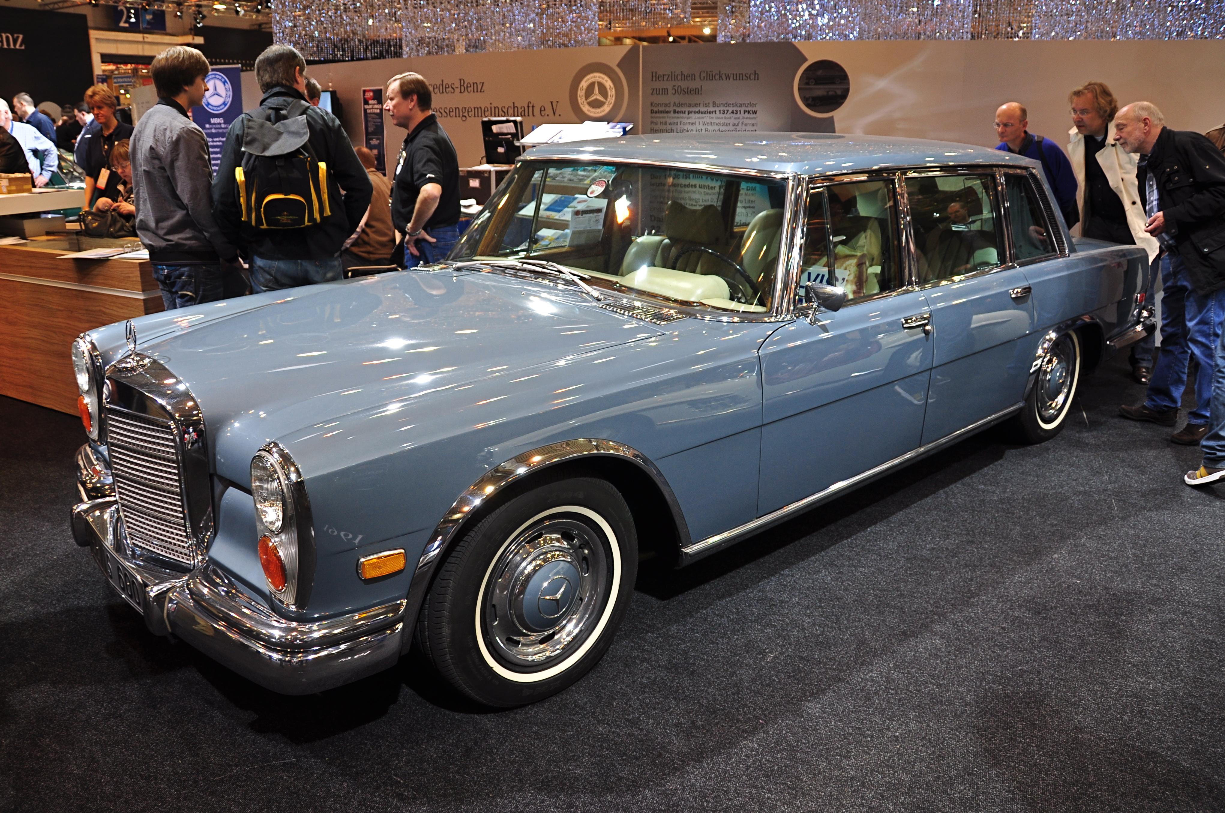 Techno Classica 2011 – Elvis Presley's Mercedes-Benz 600